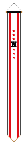 Wimpel van de provincie Drenthe / Pennant of the Dutch province of Drenthe - own work Quistnix 23:59, 9 November 2005 (UTC)